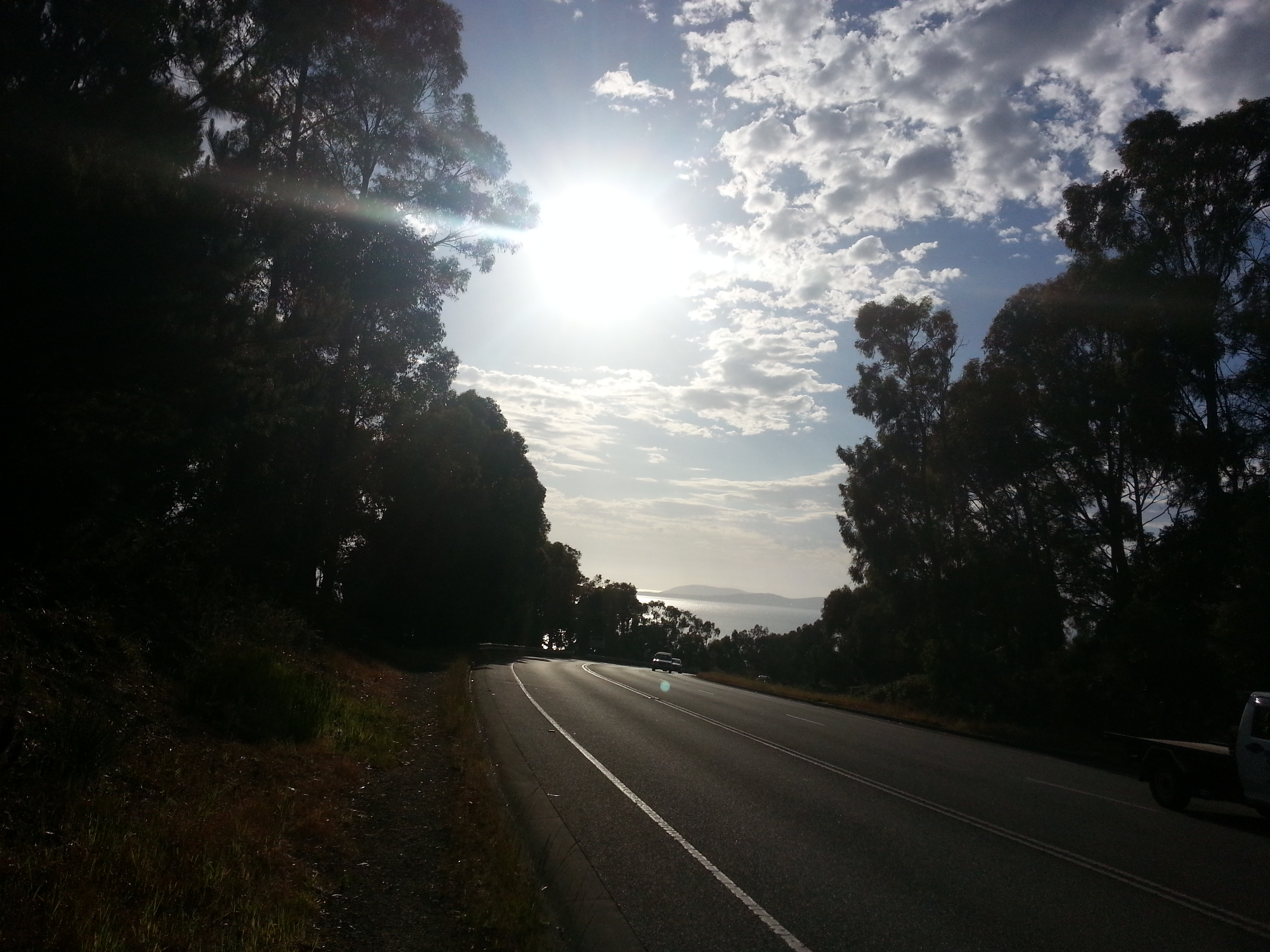 Algona Road, Tasmania, looking south towards Blackmans Bay, early December morning 2014